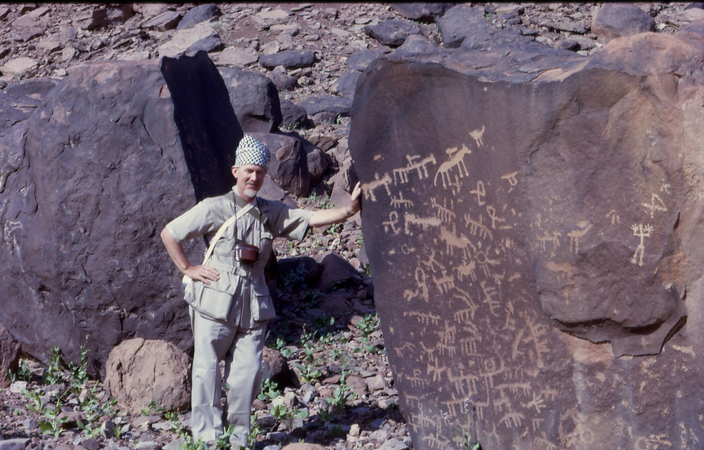 J. Desmond Clark and rock art in the Sahara Desert in Mauritania